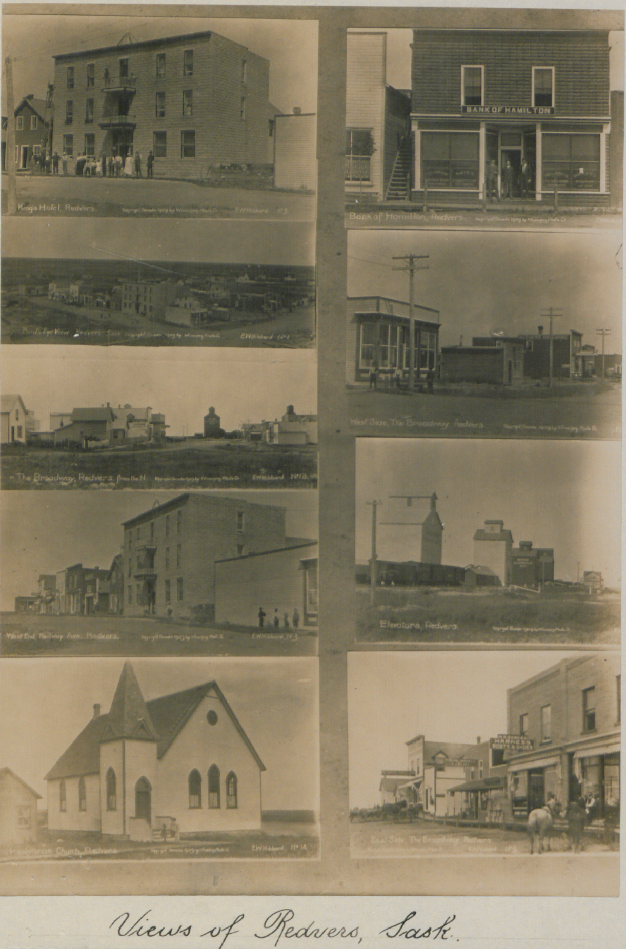 Views of Redvers, Saskatchewan.